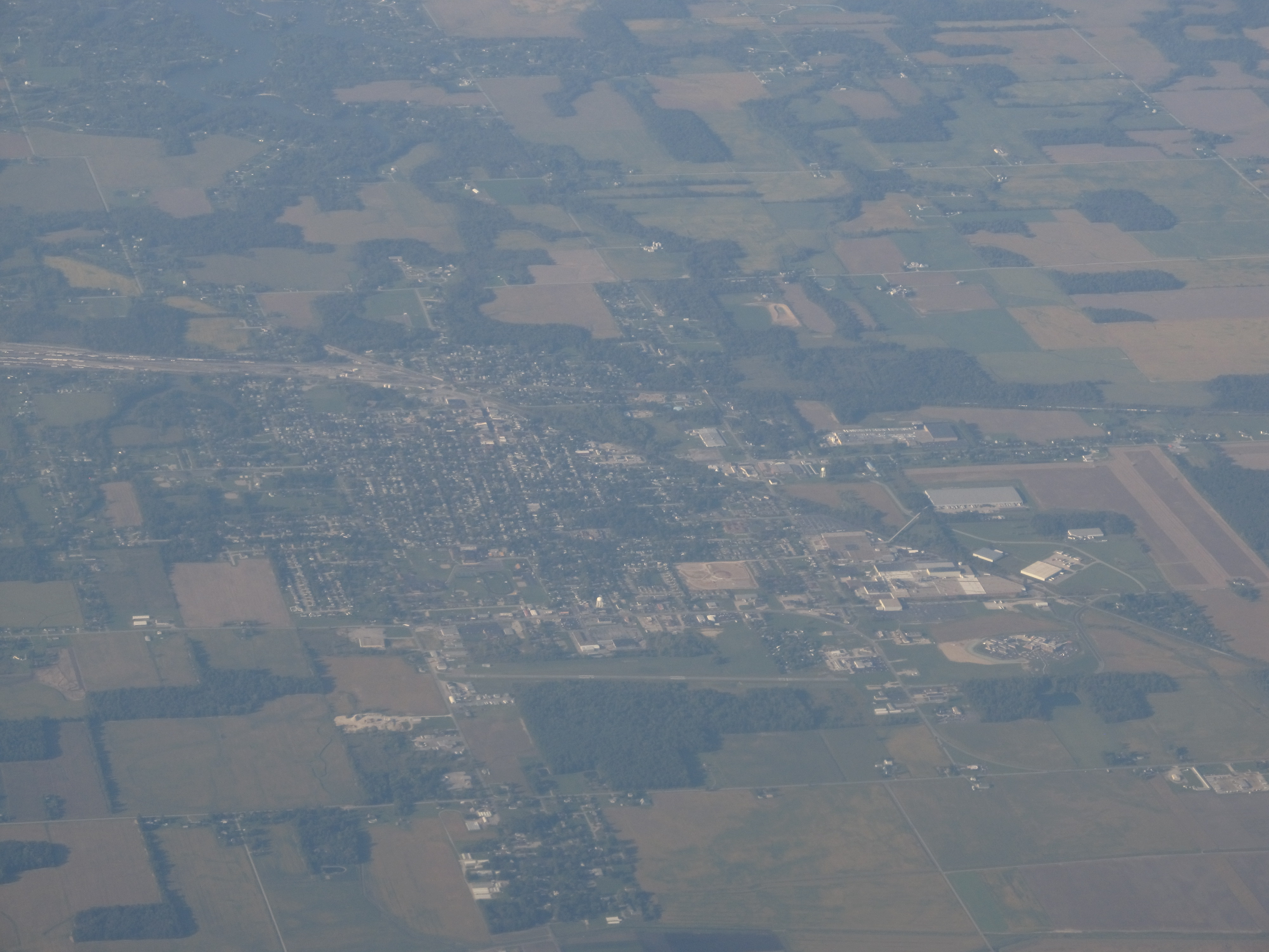 Aerial view of Willard, Ohio, United States. Photo looks just slightly east of north.